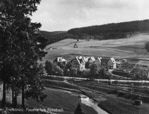 Reifensteiner Schule Wittgenstein